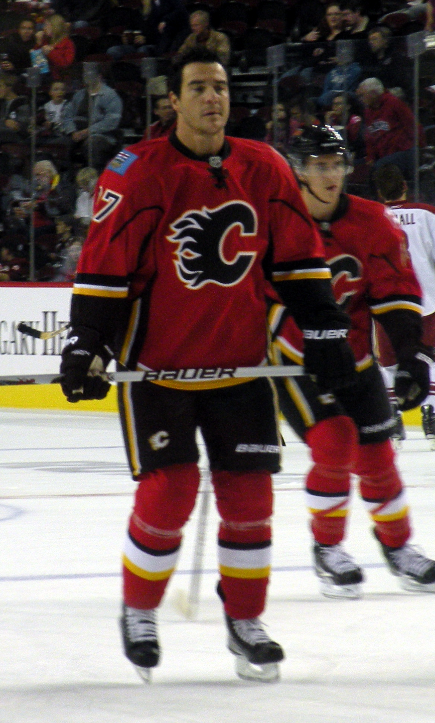 Calgary Flames defenceman Steve Staios prior to a National Hockey League exhibition game against the Phoenix Coyotes.